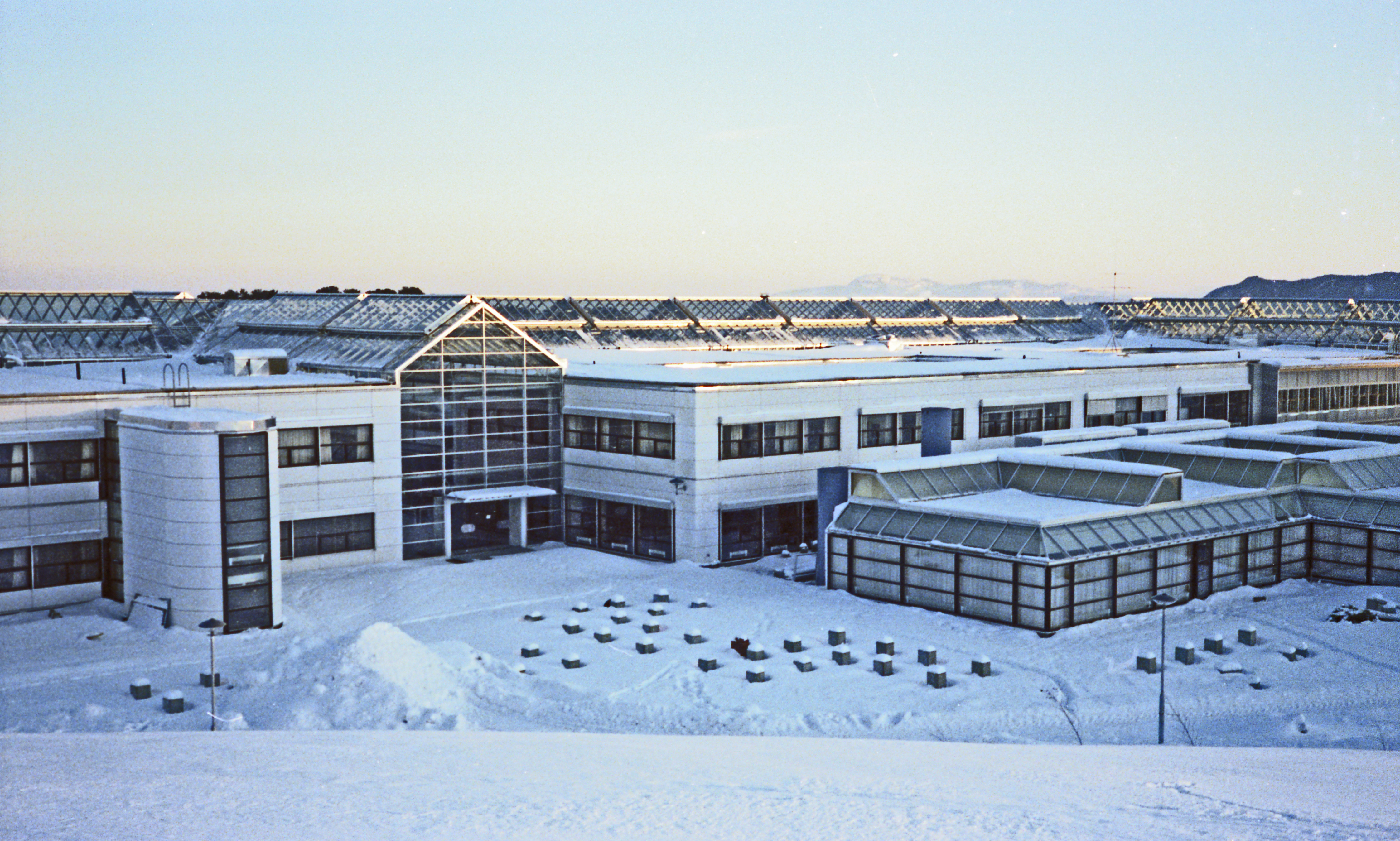 Format: 35 mm farge negativ Film: Kodak Safety Film, KodaColor II Dato / Date: Ukjent Fotograf / Photographer: Ukjent Sted / Place: NTNU, universitetssenteret på Dragvoll, Trondheim (Gnr. 48/53) Lenke / Link: Wikipedia: Norges teknisk-naturvitenskapelige universitet (no) Wikipedia: Norwegian University of Science and Technology (eng) GIS/LINE: bit.ly/AcxvJ9 Google Maps: bit.ly/x2JolD Street View: bit.ly/AuPtMX Eier / Owner Institution: Trondheim byarkiv, The Municipal Archives of Trondheim Arkivreferanse / Archive reference: Tor.H43.P1.F5434, film 22 Merknad: Fra Byantikvarens negativsamling.